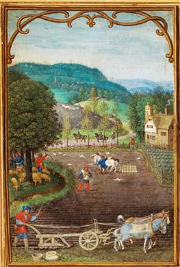 This is a double-sided leaf illustrating typical occupations for August/September and September /October. It is probably from a series of the Twelve Months. The side reproduced here features an exquisitely detailed scene showing peasants sowing and ploughing. It represents September or October. Miniatures were first painted to decorate and illustrate hand-written books. From the 1460s onwards there was competition from printed books. However wealthy patrons continued to provide a market for beautifully produced books or independent miniatures, including scenes like those painted by Simon Bening.